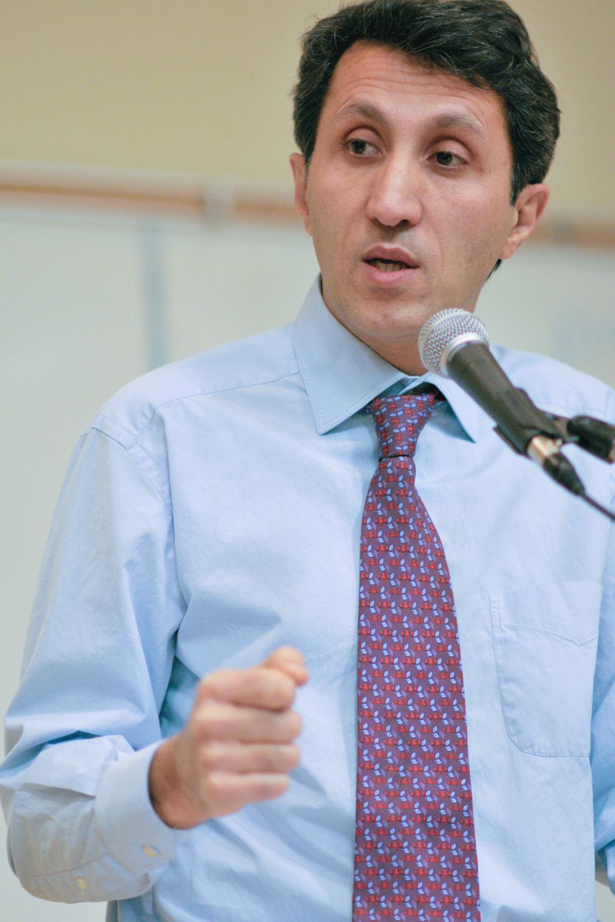 Amir Khadir speaking at Parkland Institute 14th Annual Conference